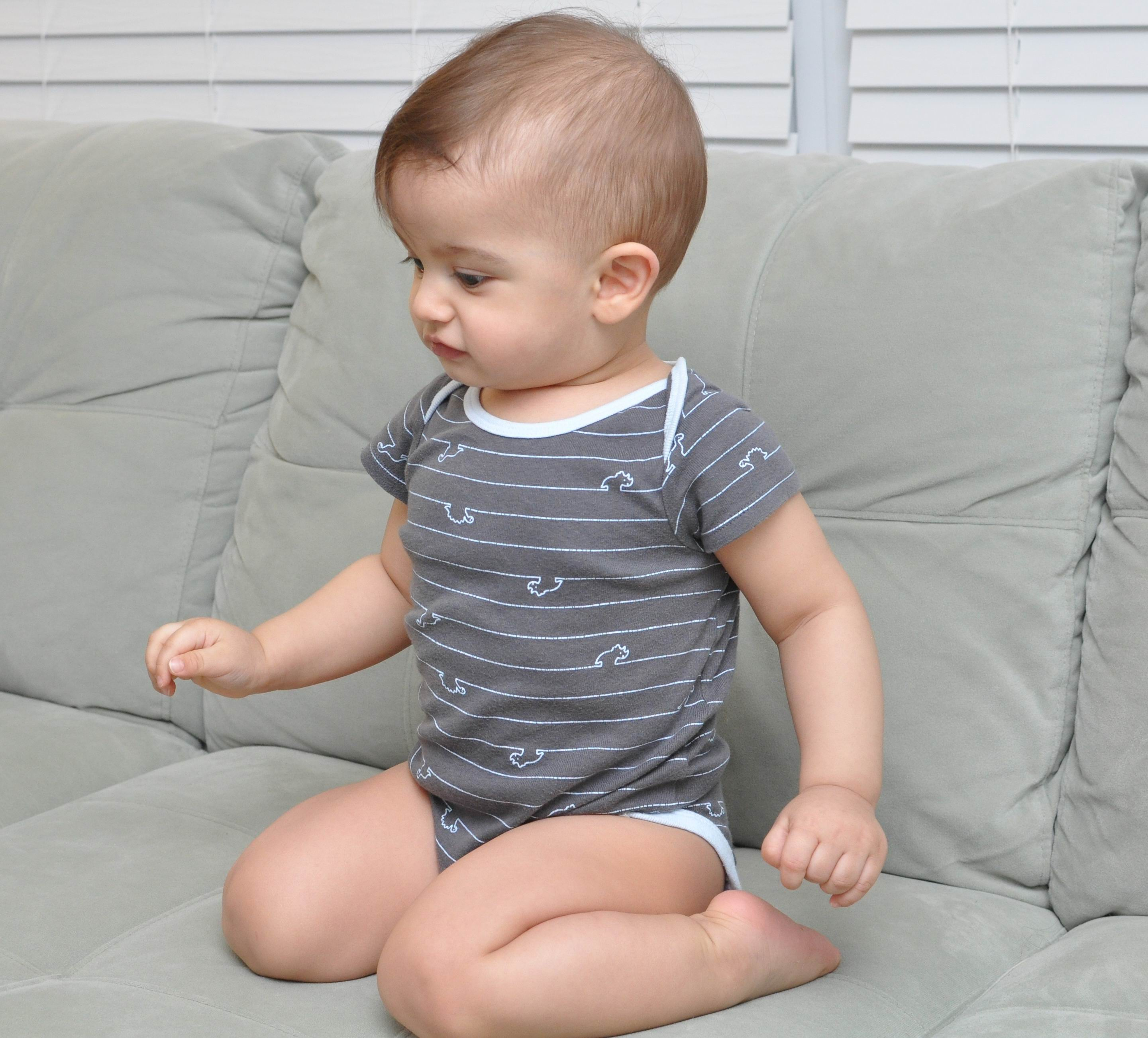 One year old toddler